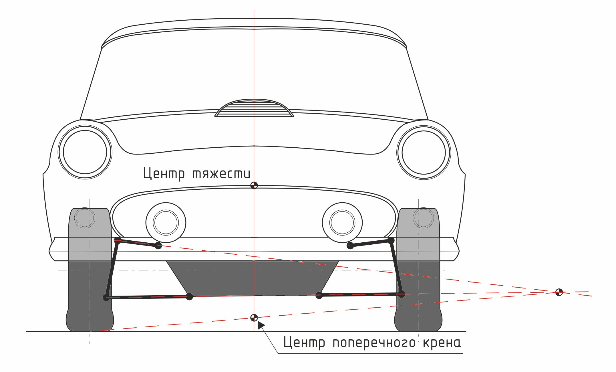 Finding the roll center of a double wishbone type suspension. Description in Russian.